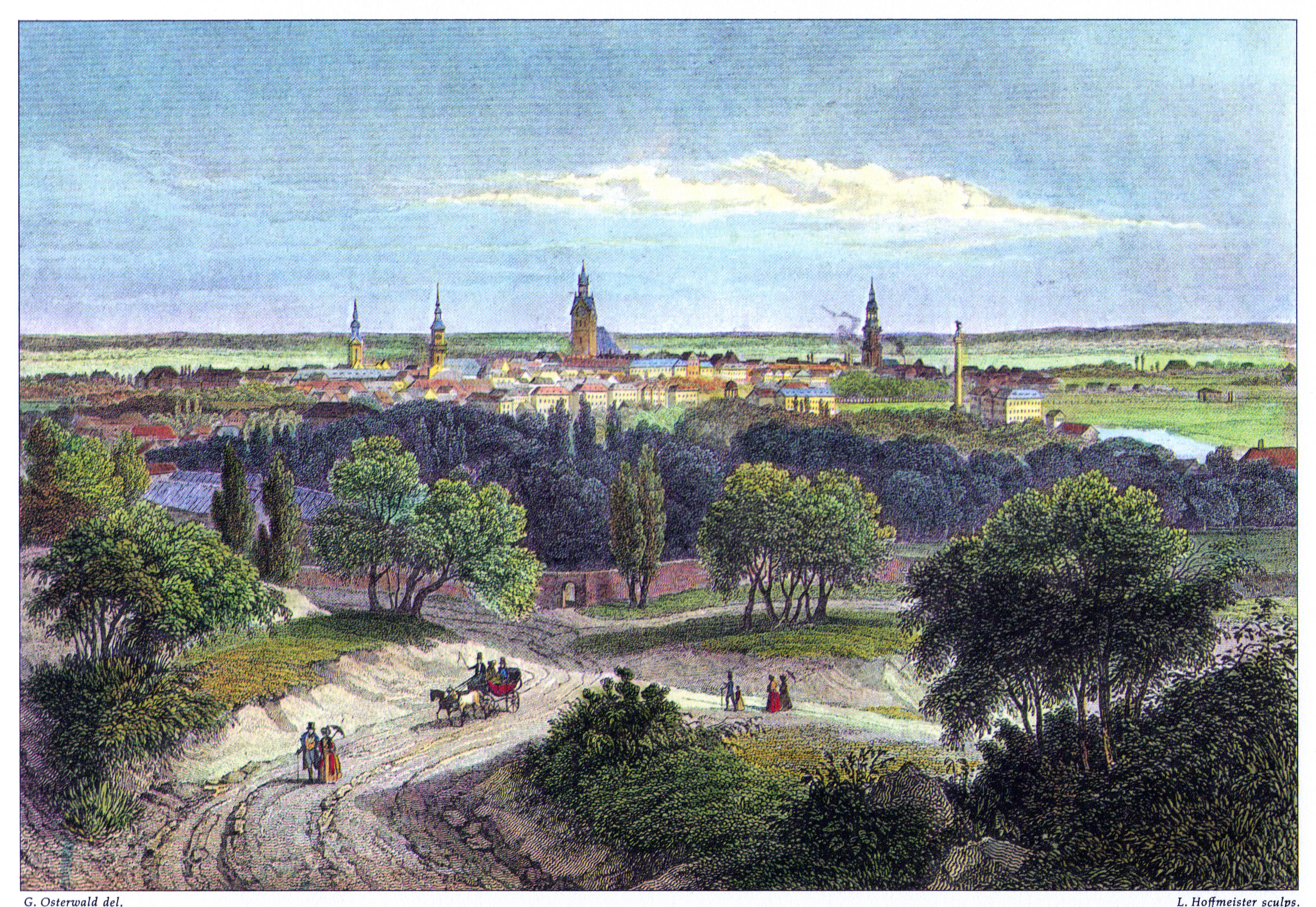 Southwest view of Hannover around 1840. Artists: G. Osterwald (drawing), L. Hoffmeister (engraving)